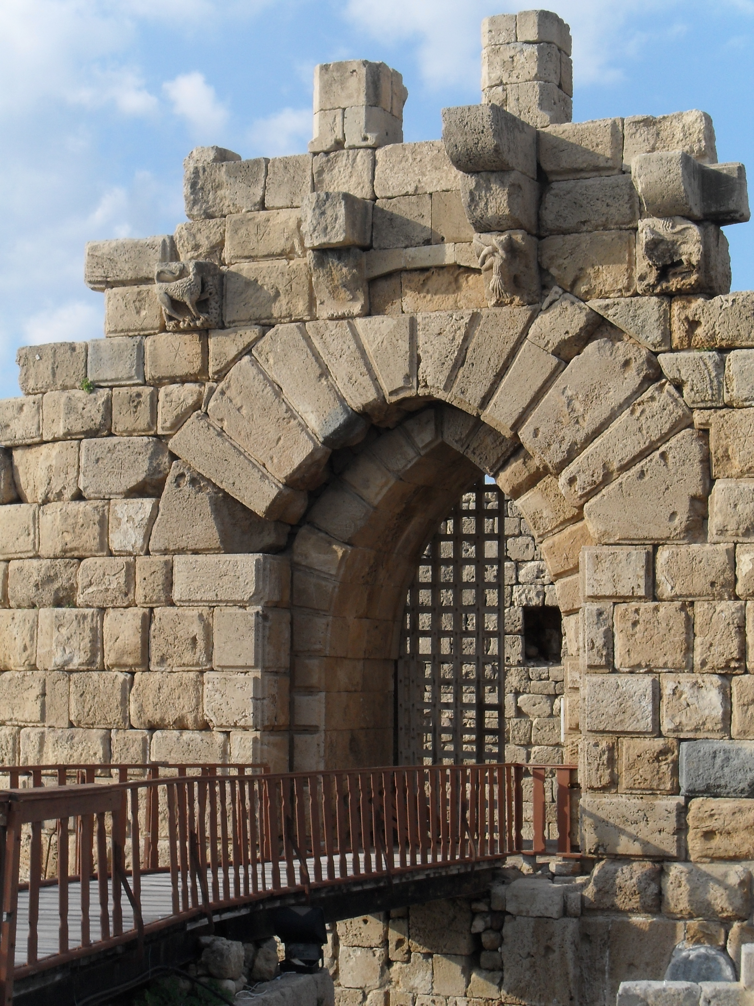 The bridge leading to the main gate of Sidon Sea Castle